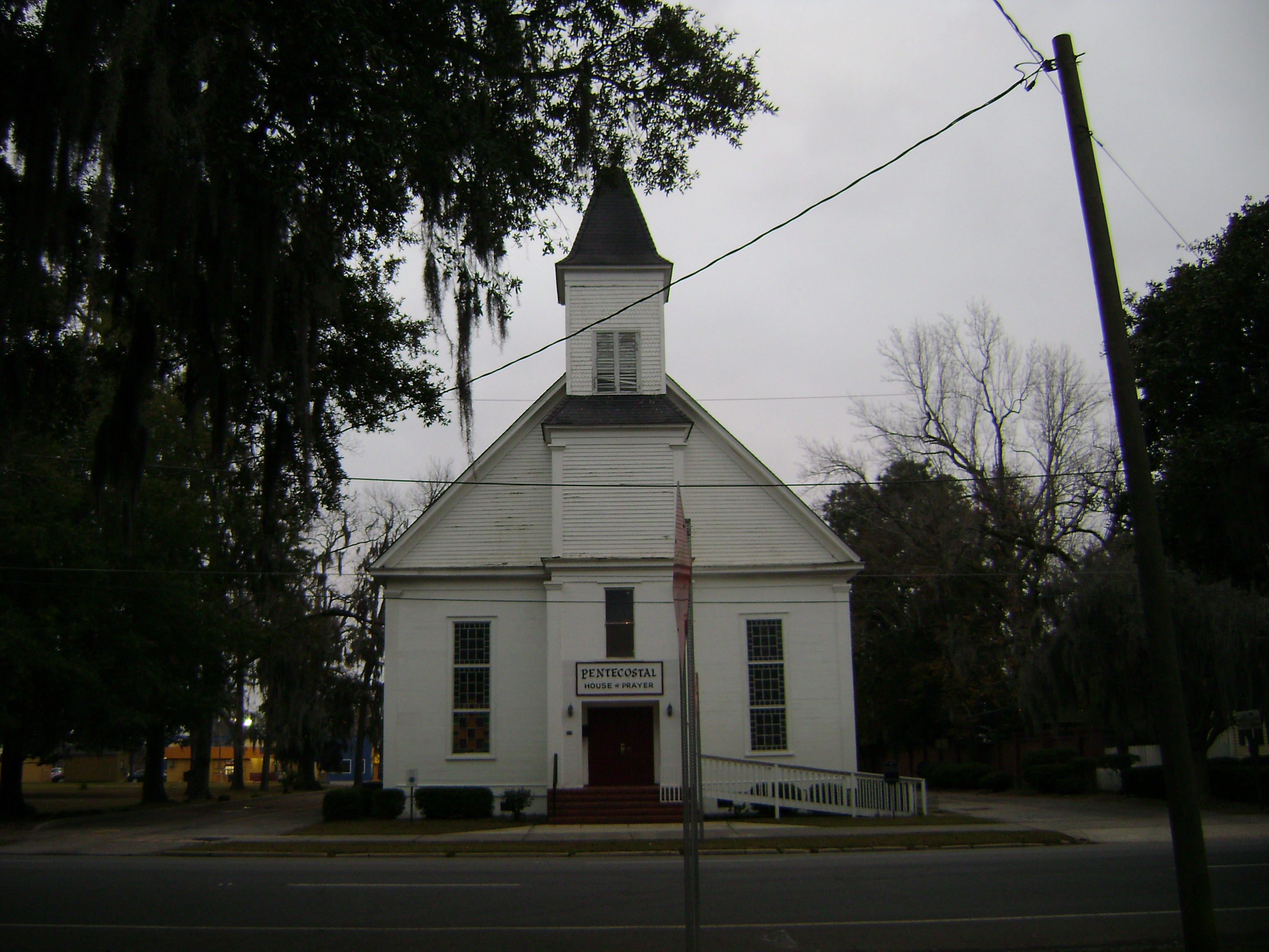 Penecostal House of Prayer, Valdosta